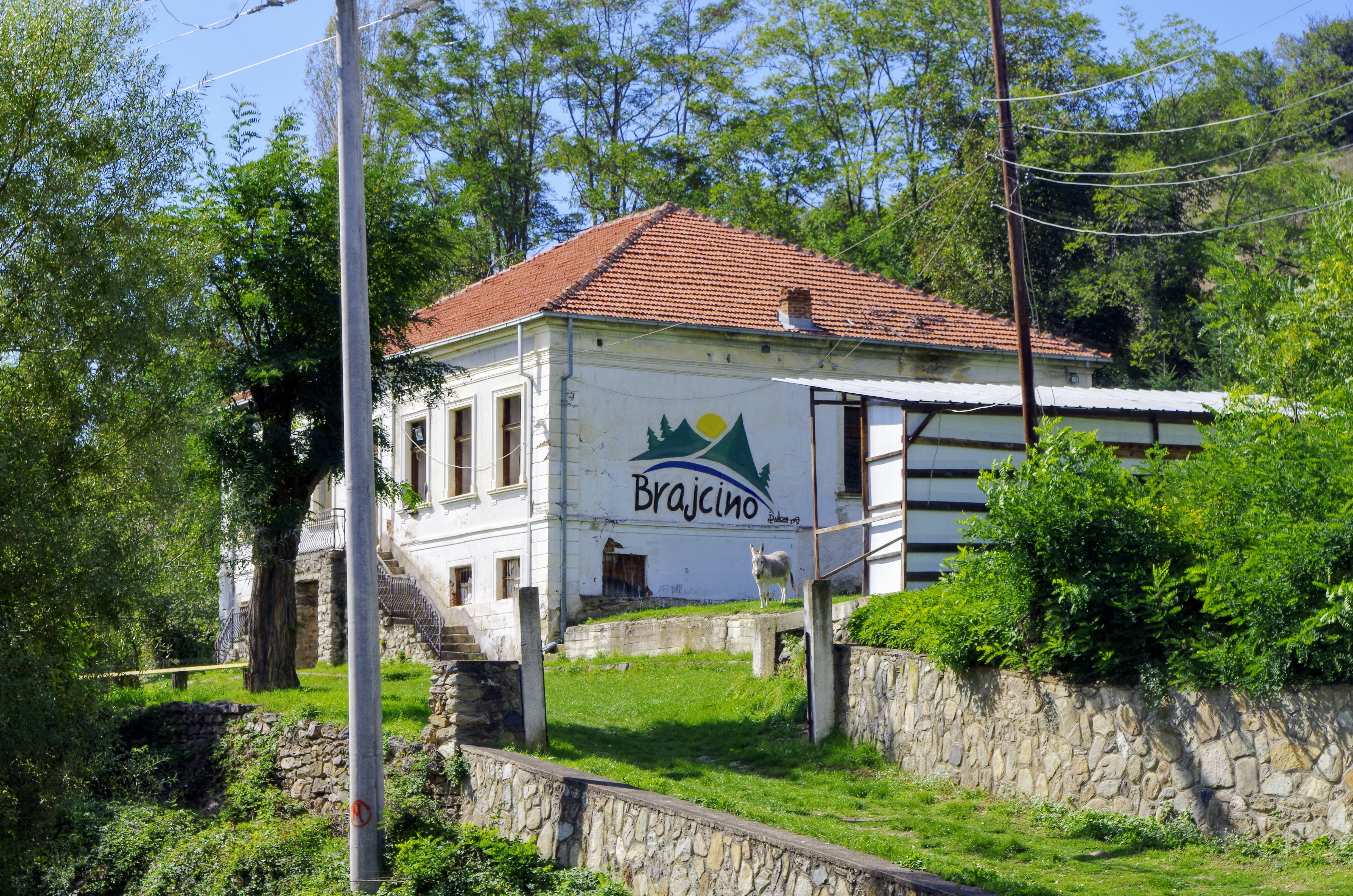 View of the old houses in the village Brajčino